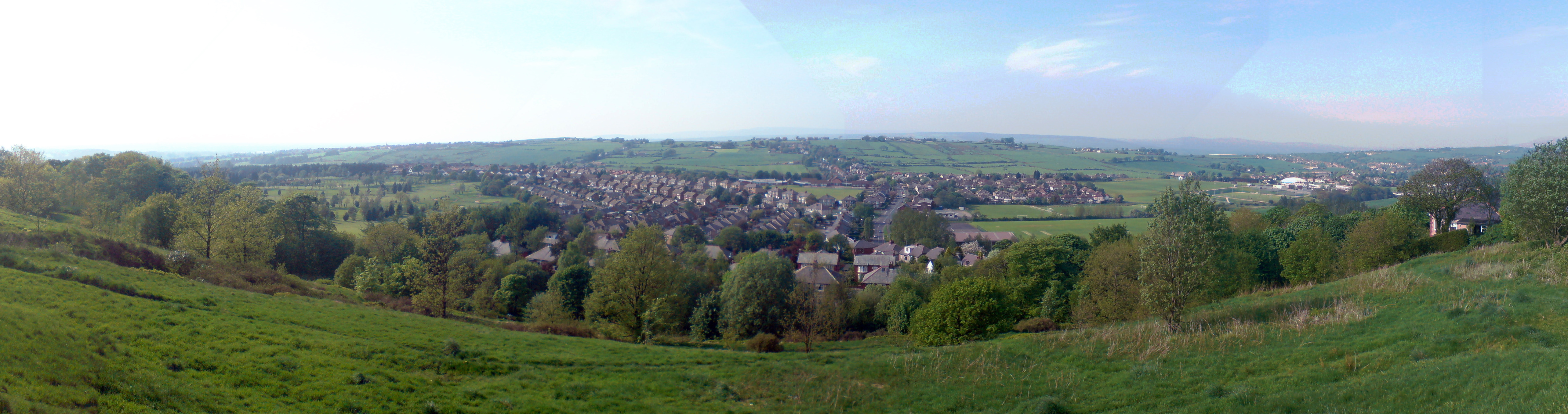 View from the site of the old water tank at the top of Revidge in Blackburn, UK. Shows (from East to West) Blackburn golf course, Beardwood, Lammack and Pleckgate. Lammack Road can be seen in the centre of the picture leading up to Ramsgreave in the North.